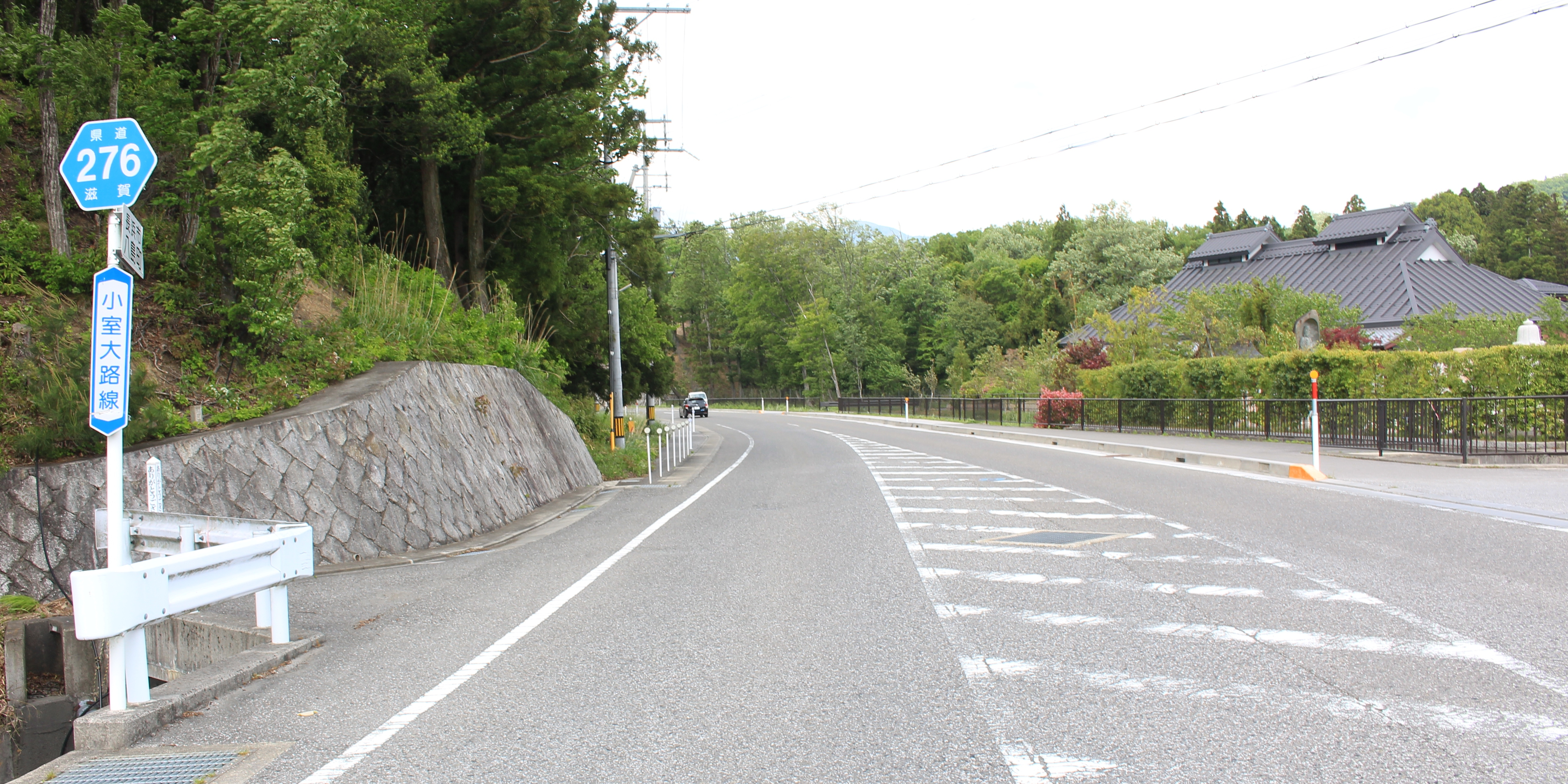 Shiga Prefectural Road Route 276 in Yashima, Nagahama, Shiga prefecture, Japan.